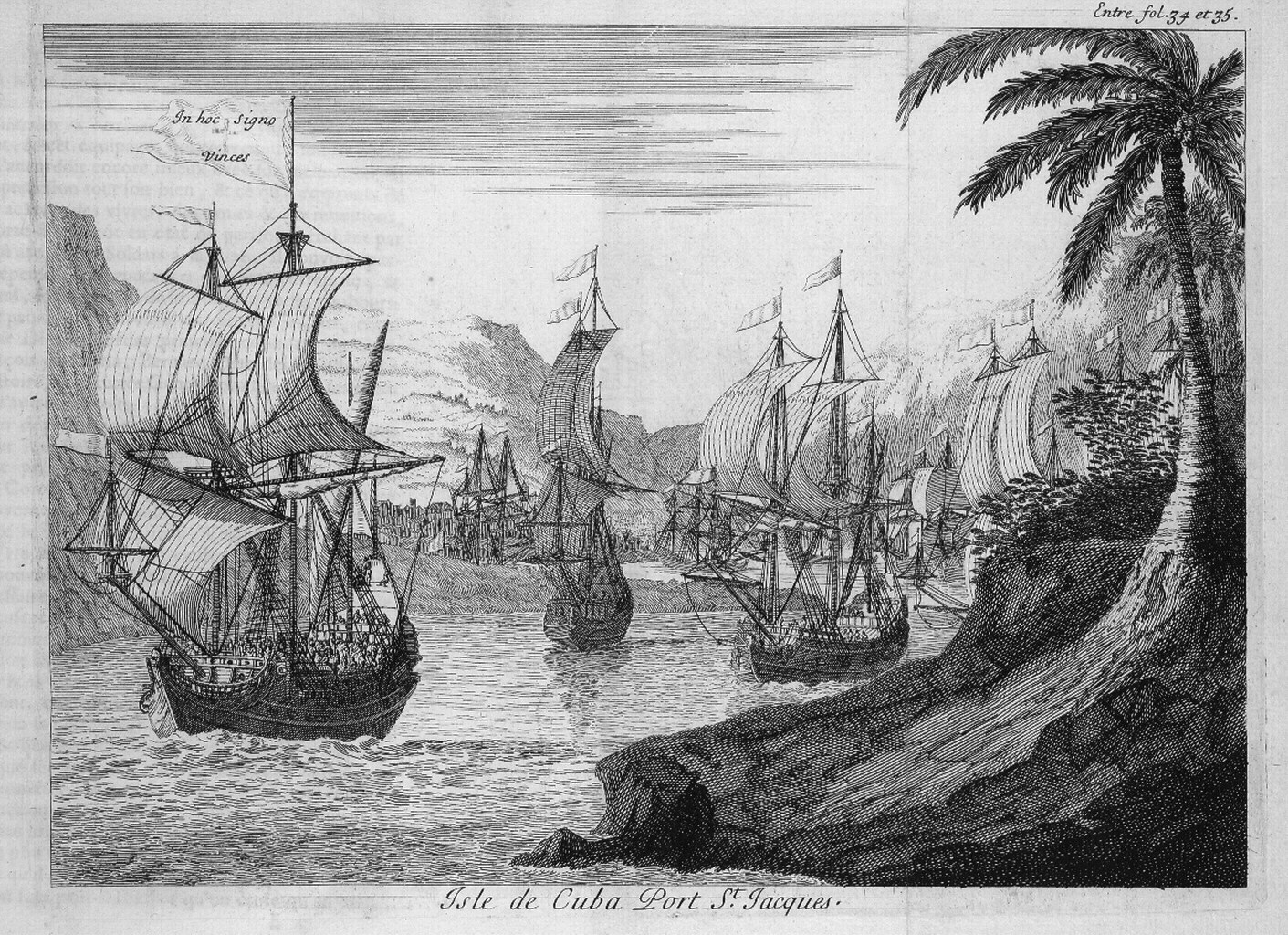 Port St Jacques in Cuba island - Copper-plate engraving from Van Beecq